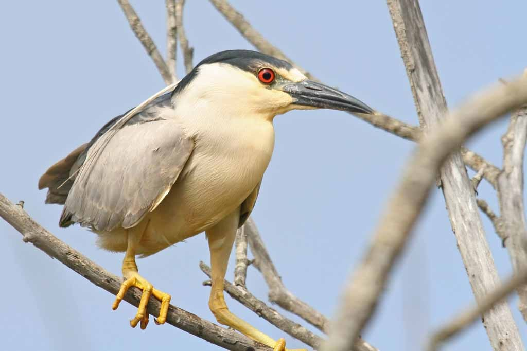 Black-crowned Night Heron Nycticorax nycticorax hoactli, Cloisters Pond, Morro Bay, California